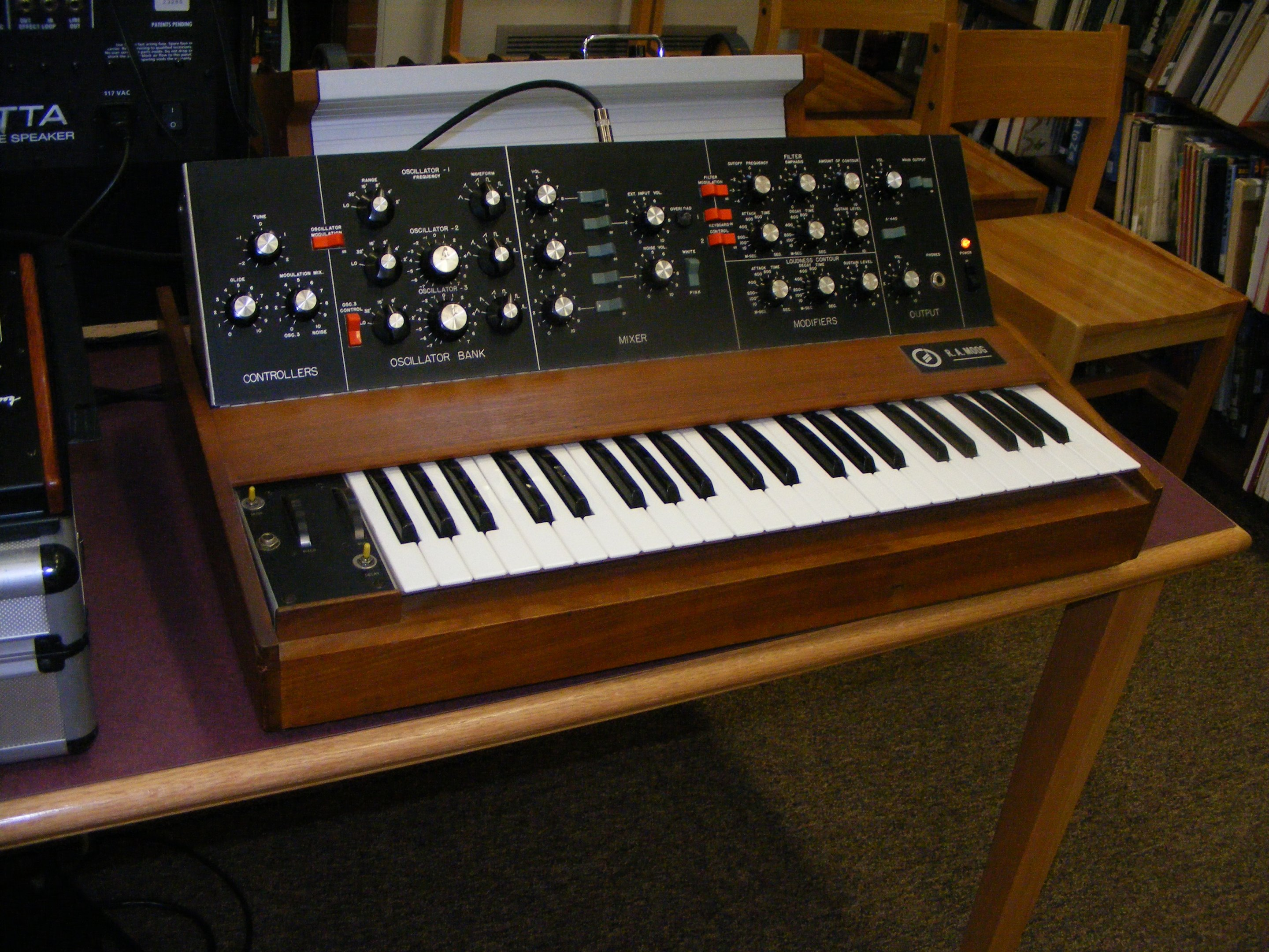 Early Minimoog by R.A.Moog (ca.1970)